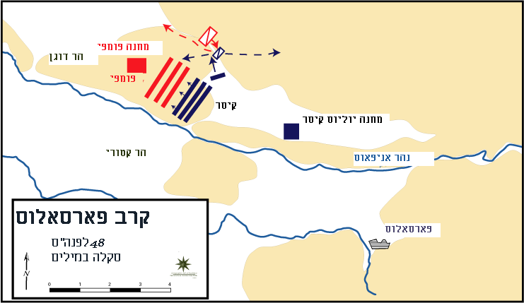 translation to Hebrew of Image:Battle of Pharsalus, 48 BC.gif